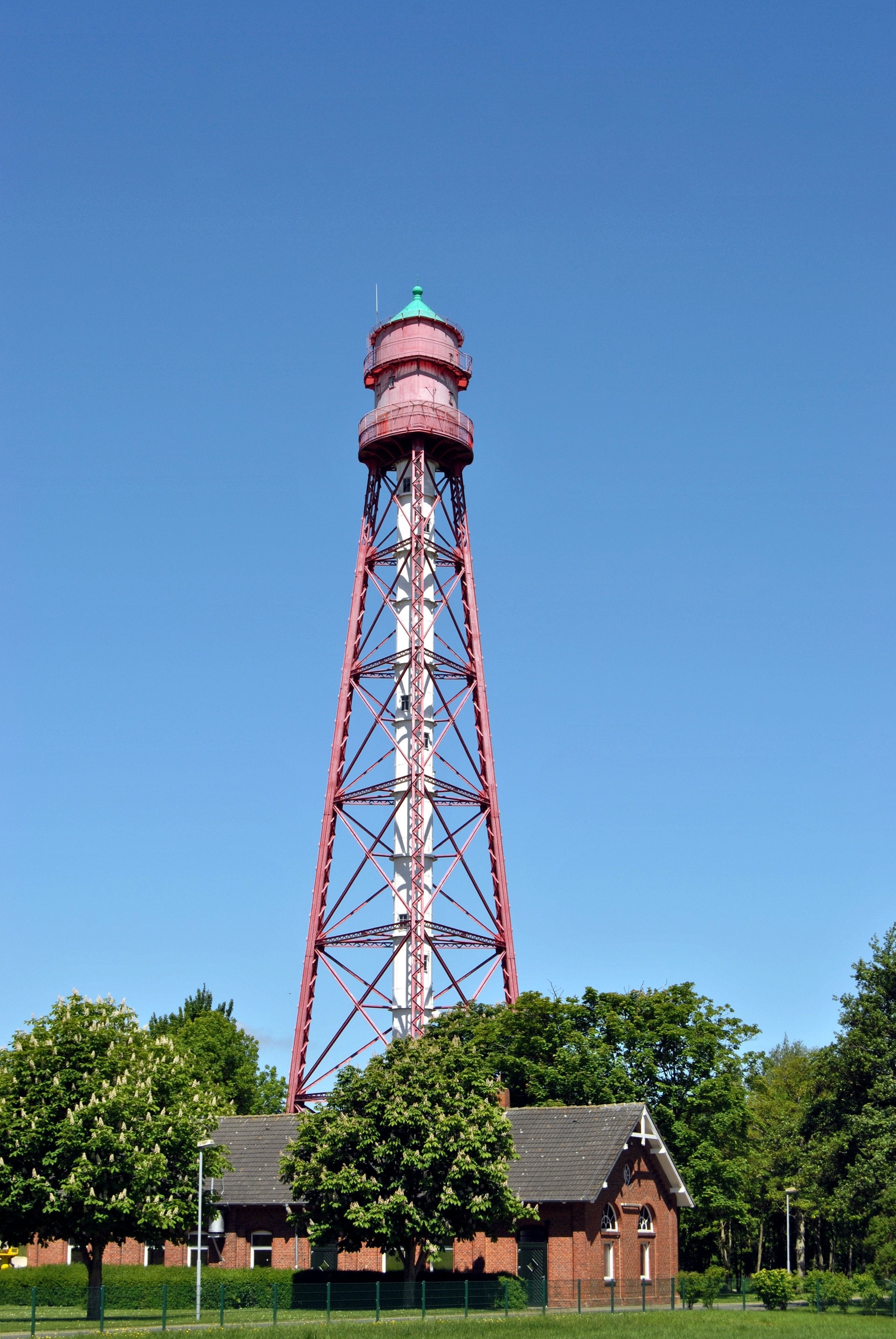 Southeastern side of the Campen Lighthouse in Krummhörn (East Frisia, Lower Saxony, Germany)